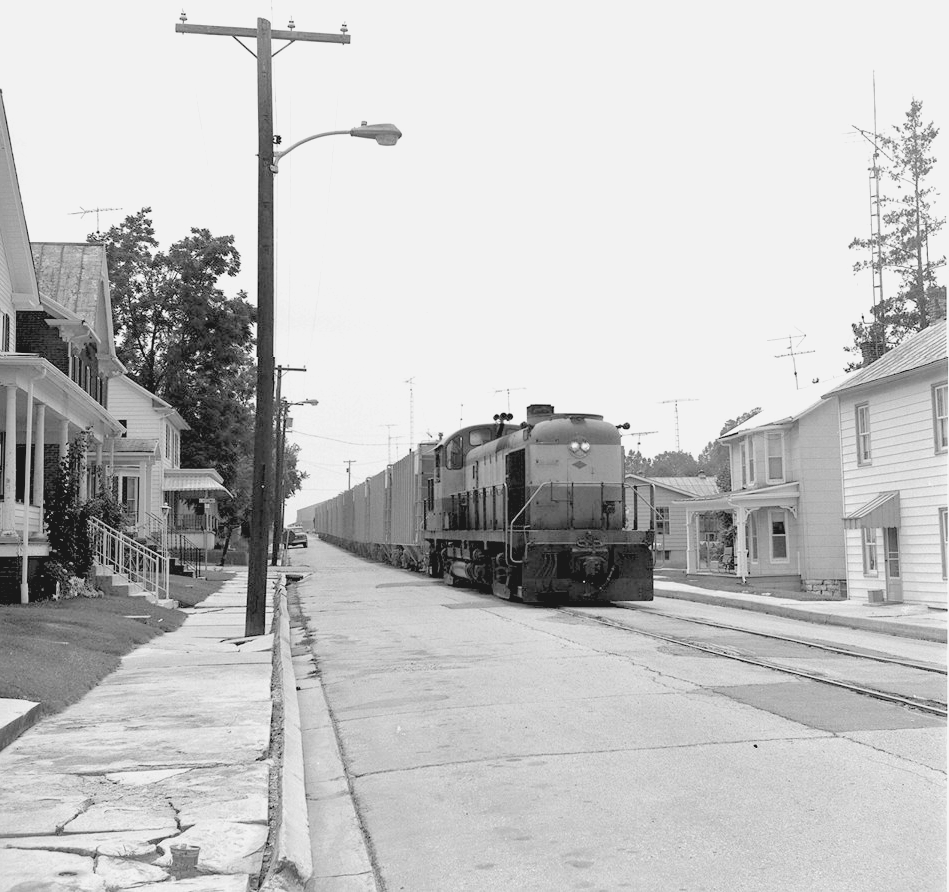 1984 07 MMID 56 in Union Bridge on former Central of Maryland.